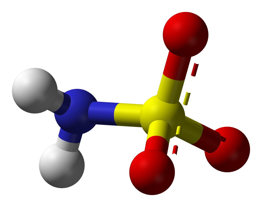 Ball and stick model of the sulfamate anion.